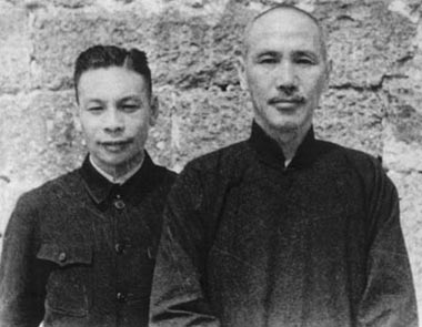 Chiang Ching-kuo (left) with father Chiang Kai-shek (right).